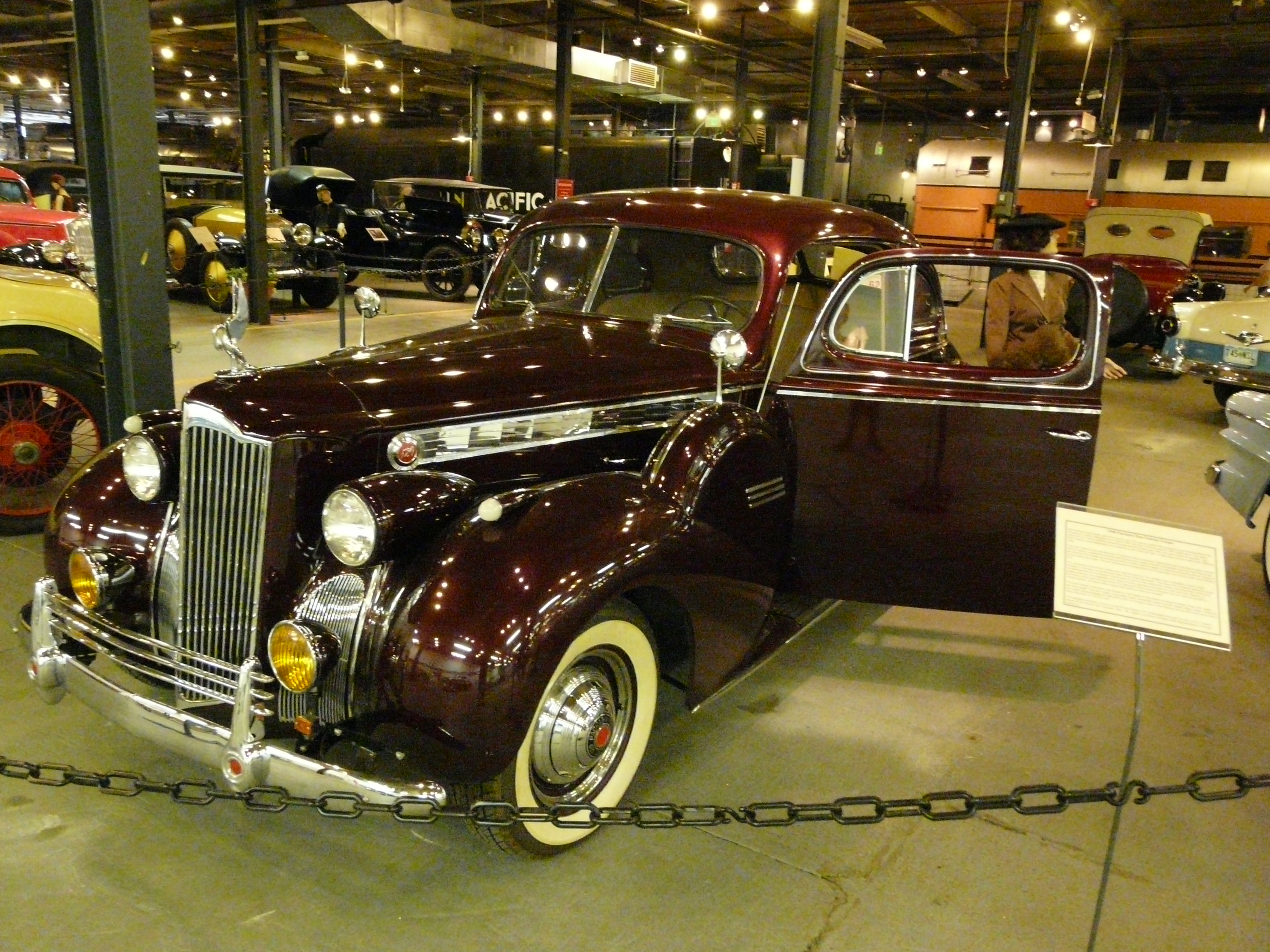 1940 (18th series) Packard One-Twenty Coupe; either 1801-1398 Business Coupe, 1801-1395 Club Coupe, or 1801-1395DE Deluxe Club Coupe Denver, summer 2012